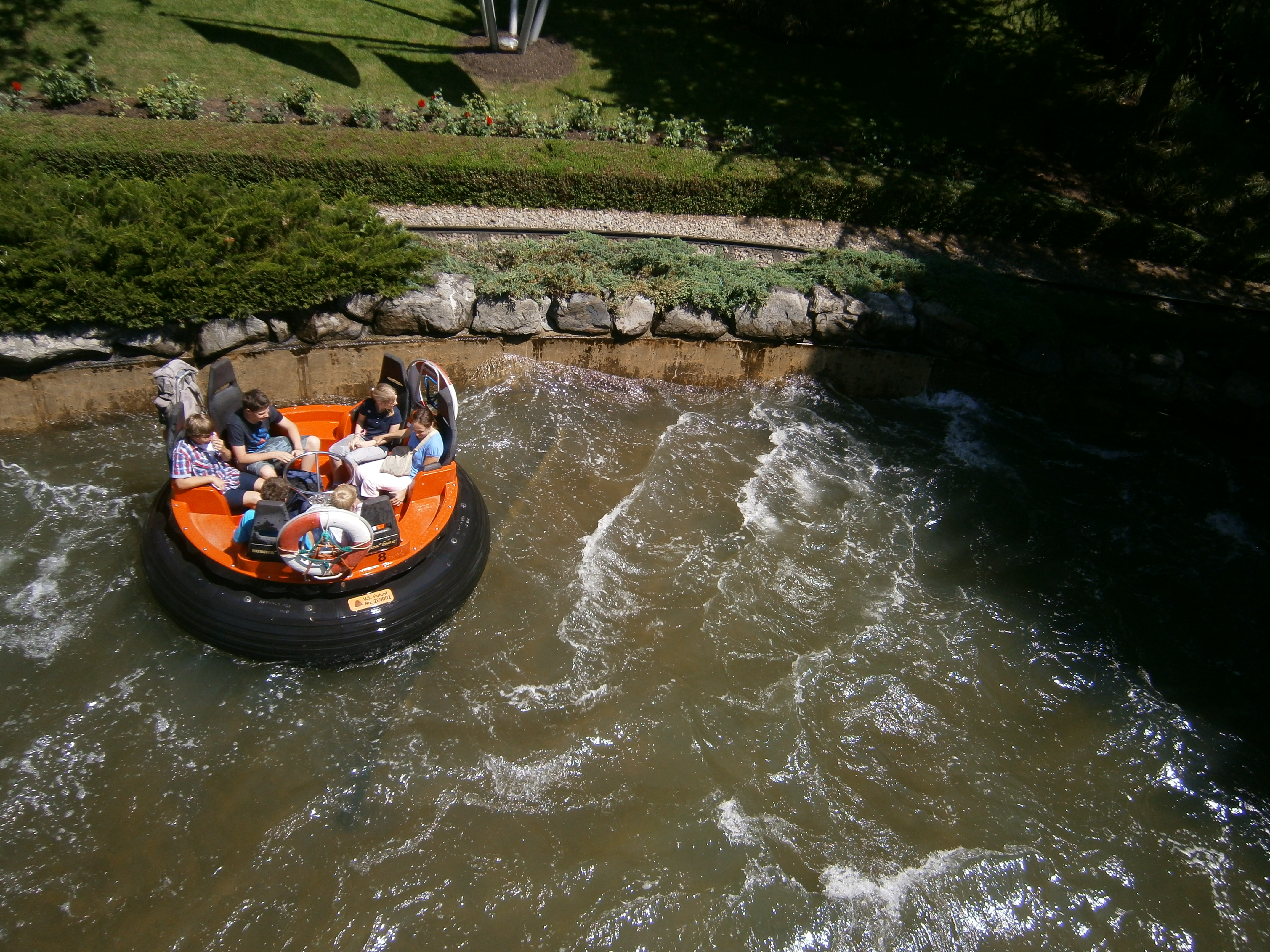 The "Fjord-Rafting" in Europa-Park Rust